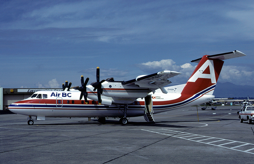 Air BC de Havilland Canada DHC-7-102 Twin Otter C-GFEL at Vancouver International Airport